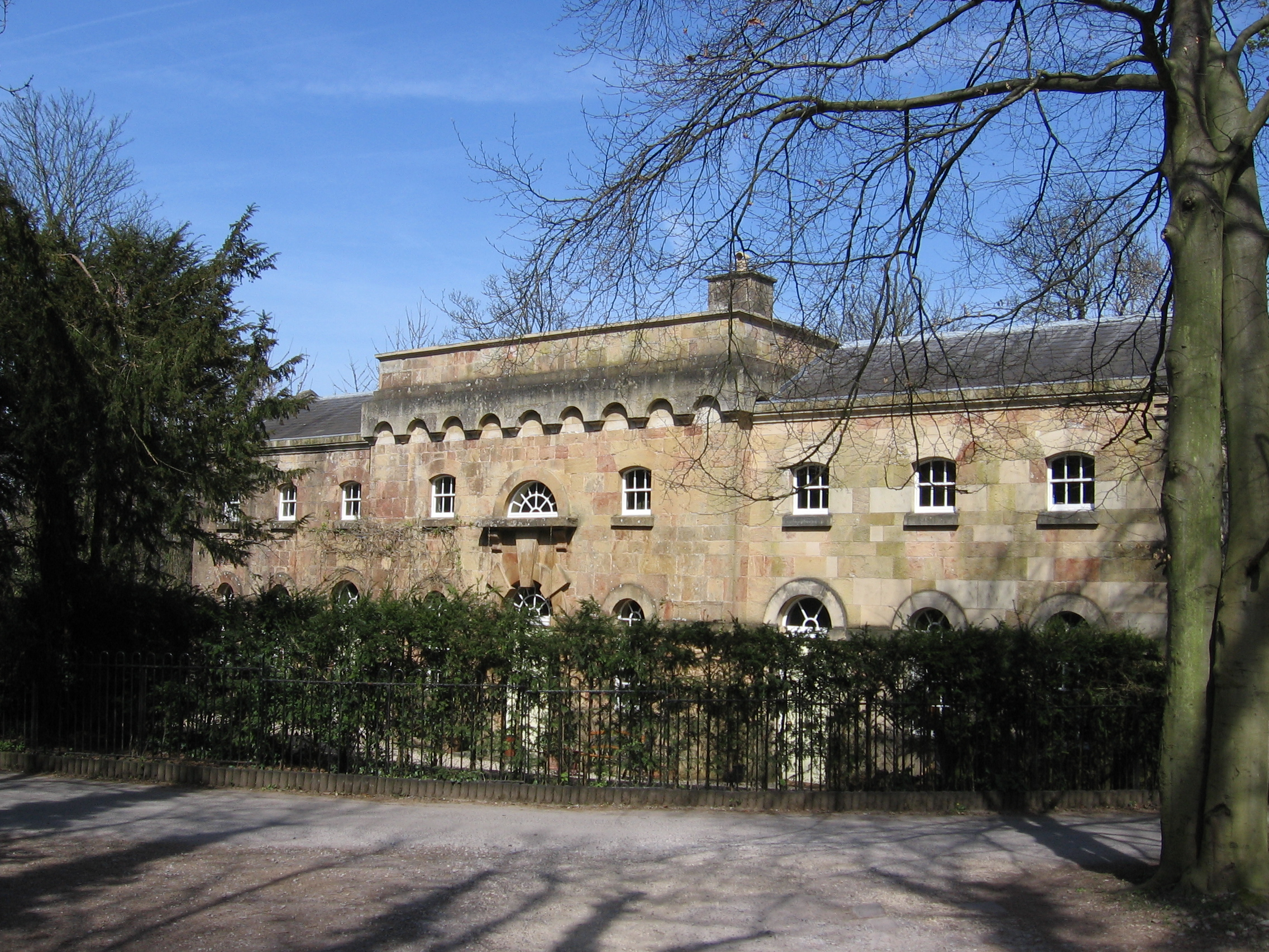 The Brewhouse at Kings Weston House in Bristol, UK.